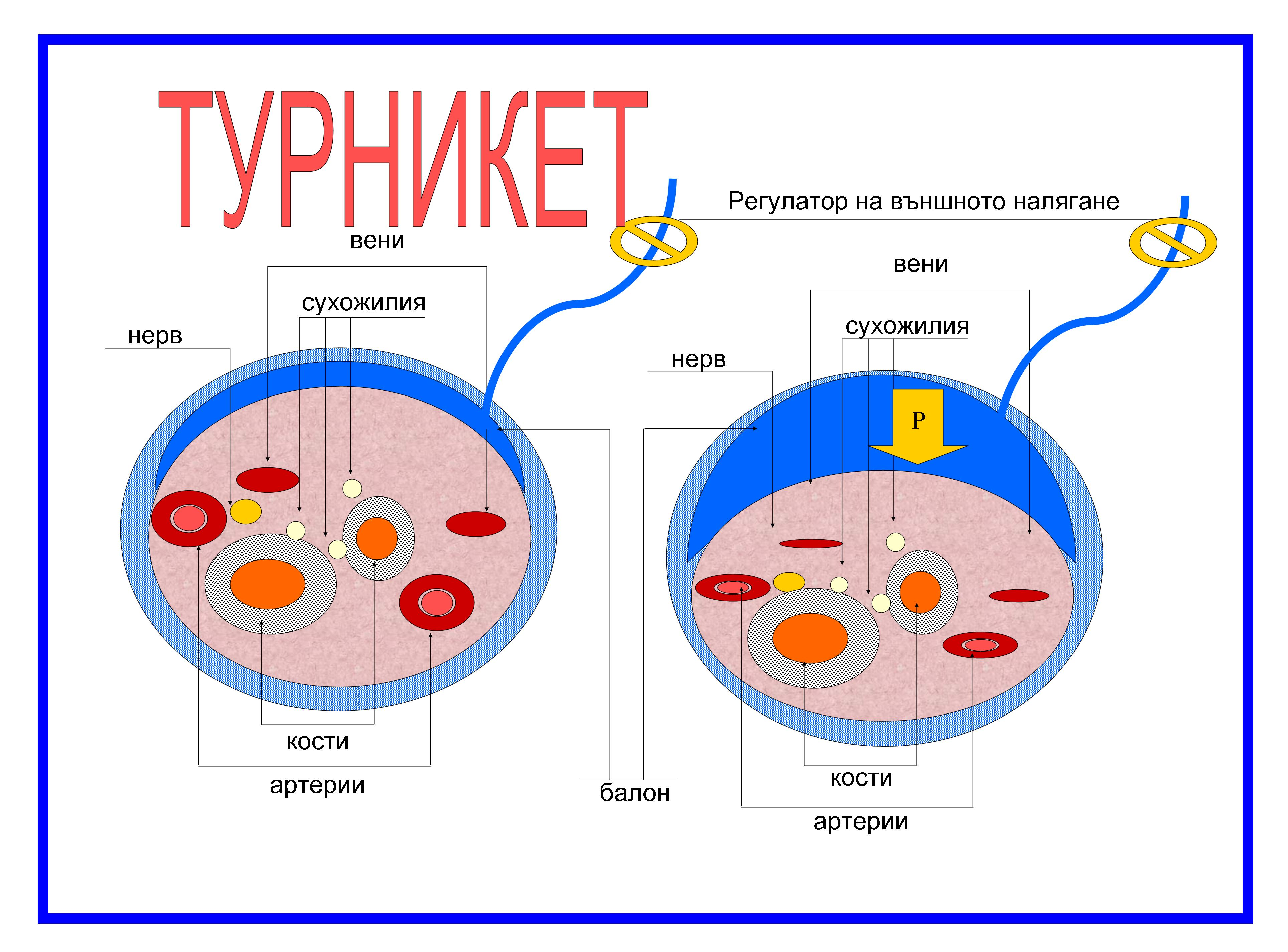 A graphic explanation of the basic principle of hemostasis via use of tourniquets.